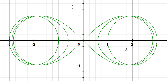 Created in Grapher Parameters are r=2, a=1, c=0, 0.8, 1